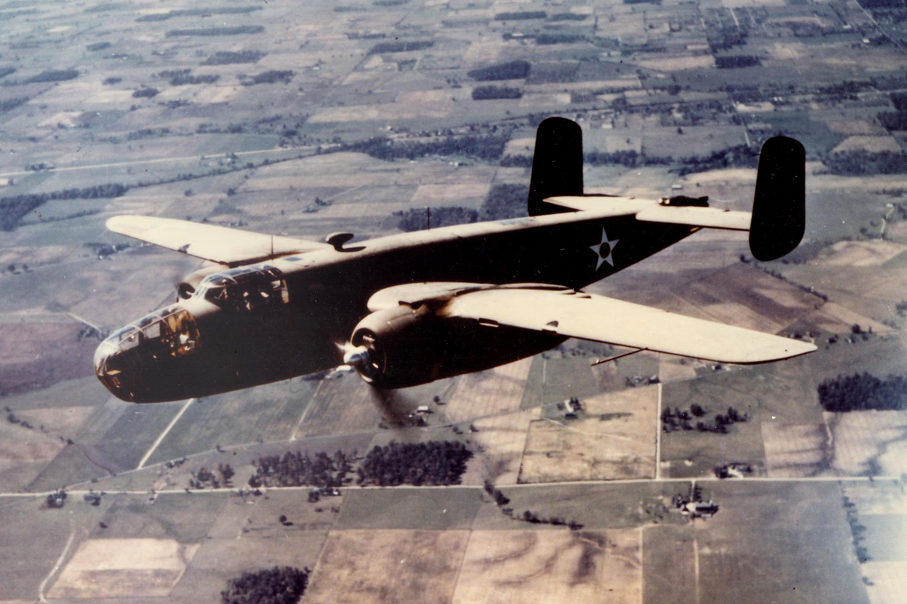 A U.S. Army Air Force North American B-25A Mitchell bomber in flight.